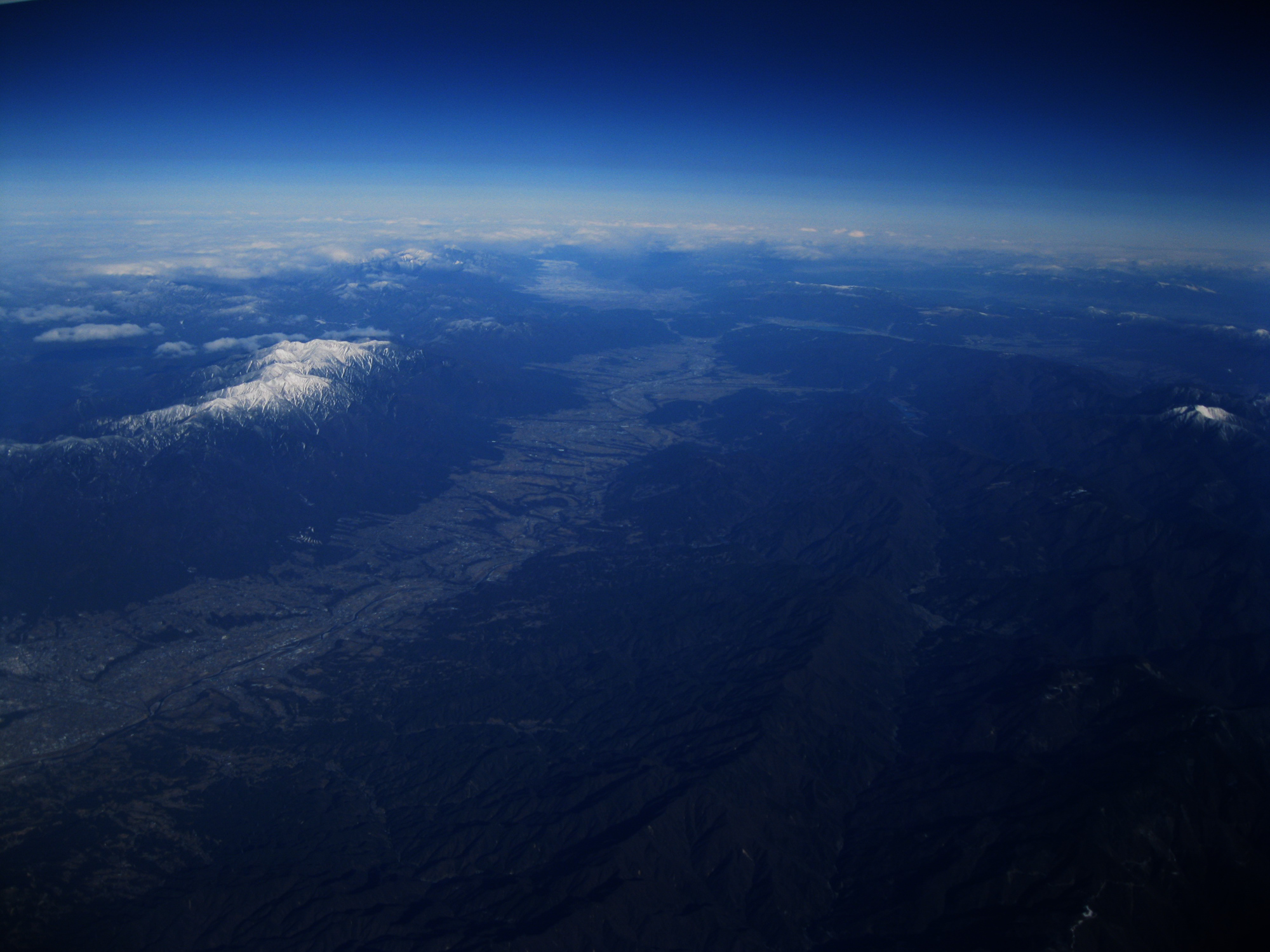 Kiso Mountains (left) and Ina Basin and Akaishi Mountains (right) as seen from the South.